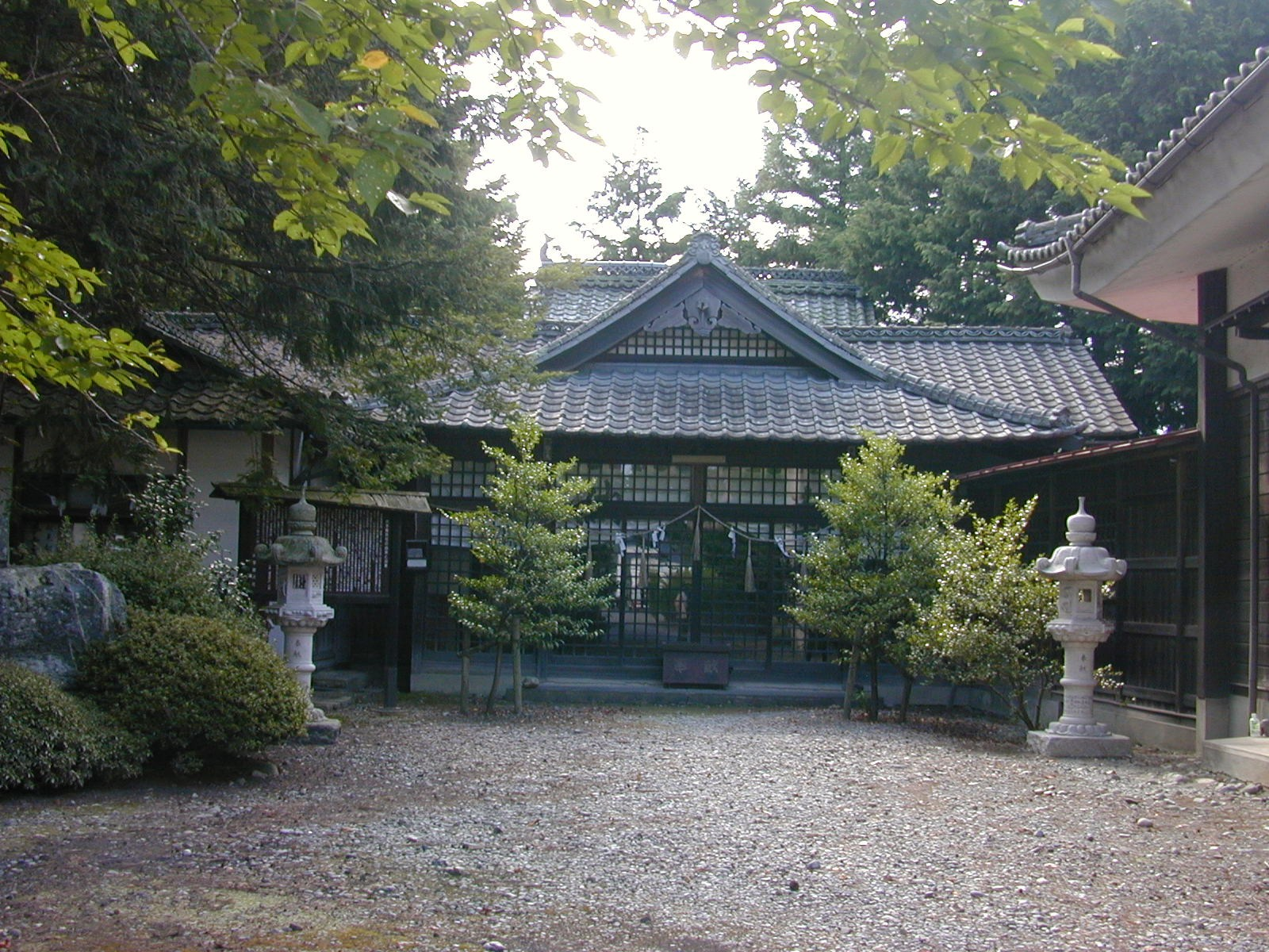 Joukyou Gimin-sha shrine in Azumino.